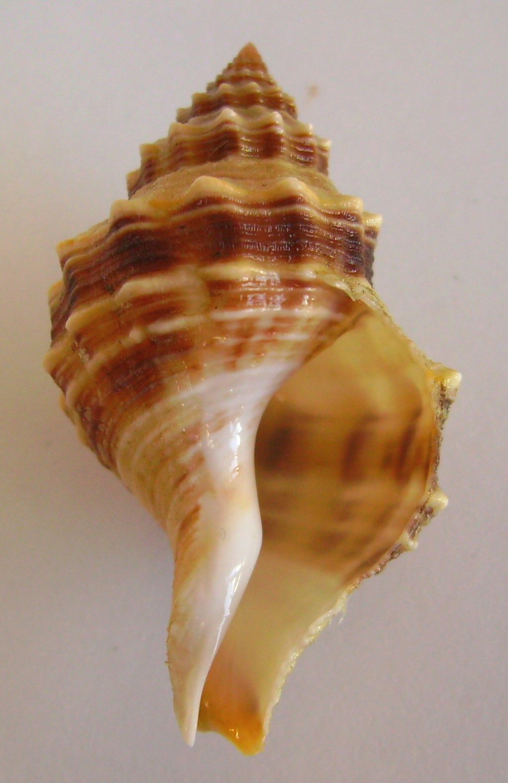 Austrofusus glans (base) dredged from the east coast of Northland , New Zealand. This work has been released into the public domain by its author, Graham Bould. This applies worldwide.In some countries this may not be legally possible; if so:Graham Bould grants anyone the right to use this work for any purpose, without any conditions, unless such conditions are required by law.